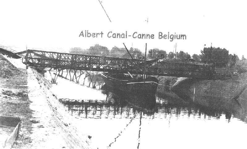 Albert Canal bridge Second try works with boat. Sept 15, 1944